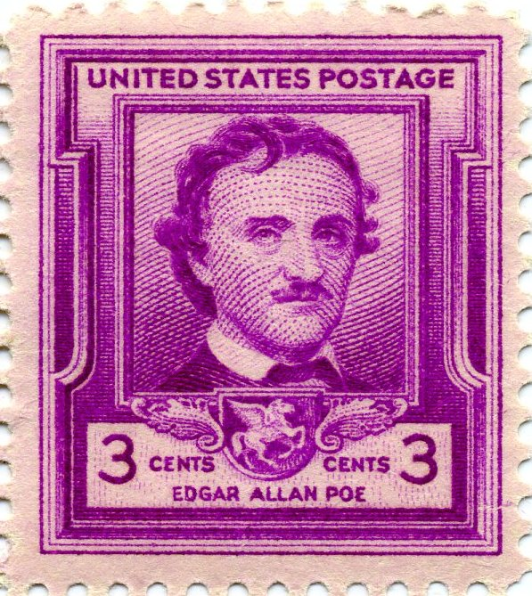 Edgar Allan Poe, poet and writer, commemorated in US postage stamp of 1949.